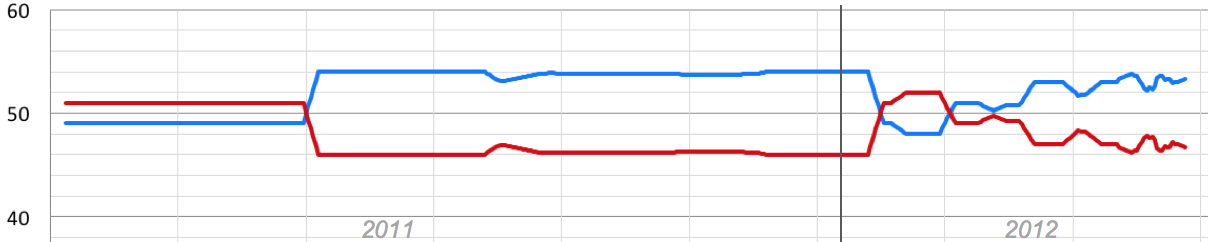 Head to head London mayoral polling between Boris Johnson and Ken Livingstone